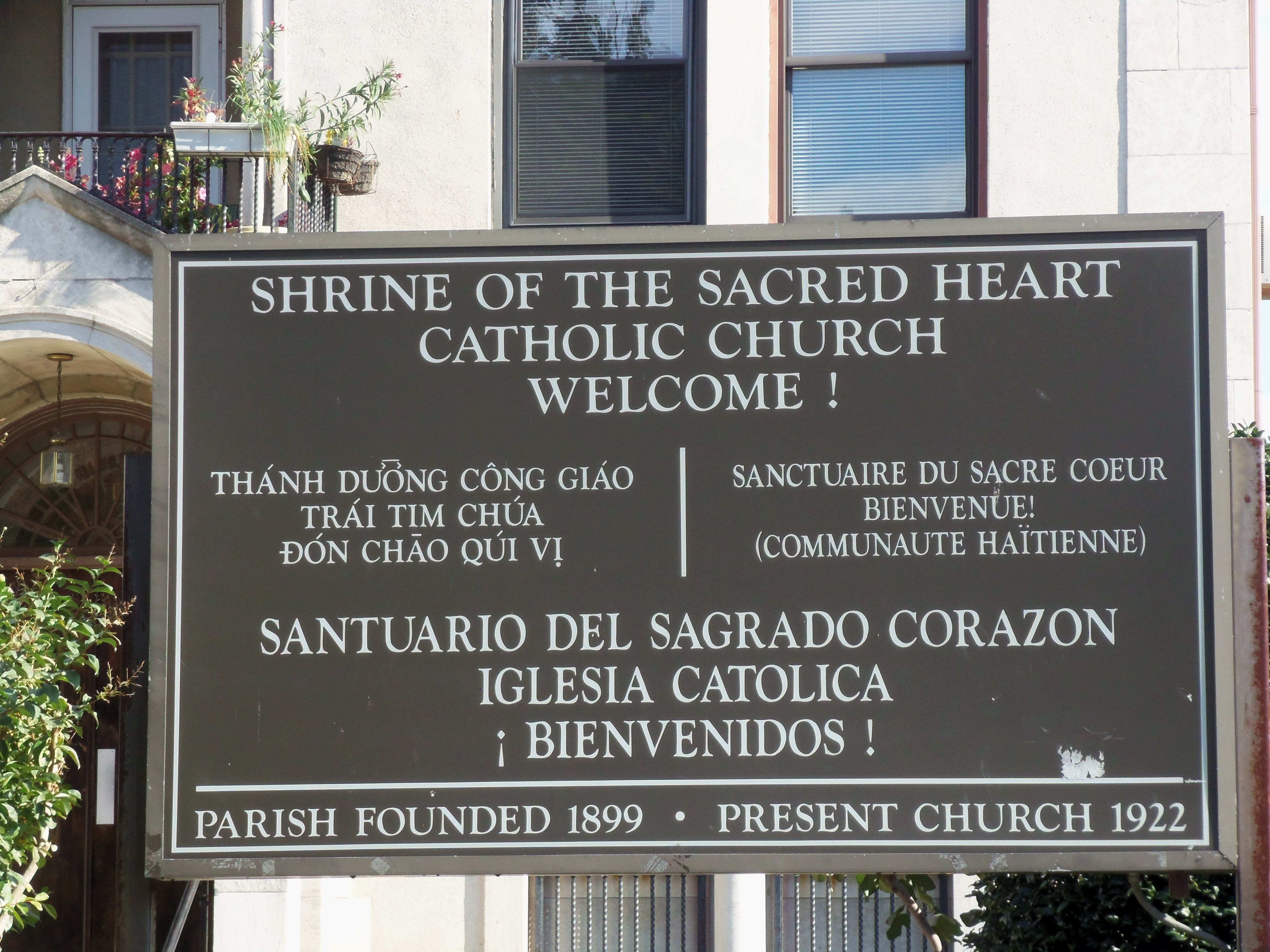 The Shrine of the Sacred Heart in the Columbia Heights neighborhood of Washington, DC.